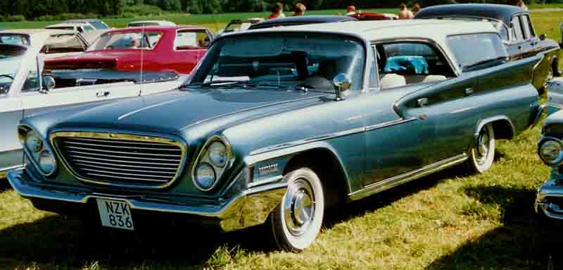 Chrysler Newport 1961